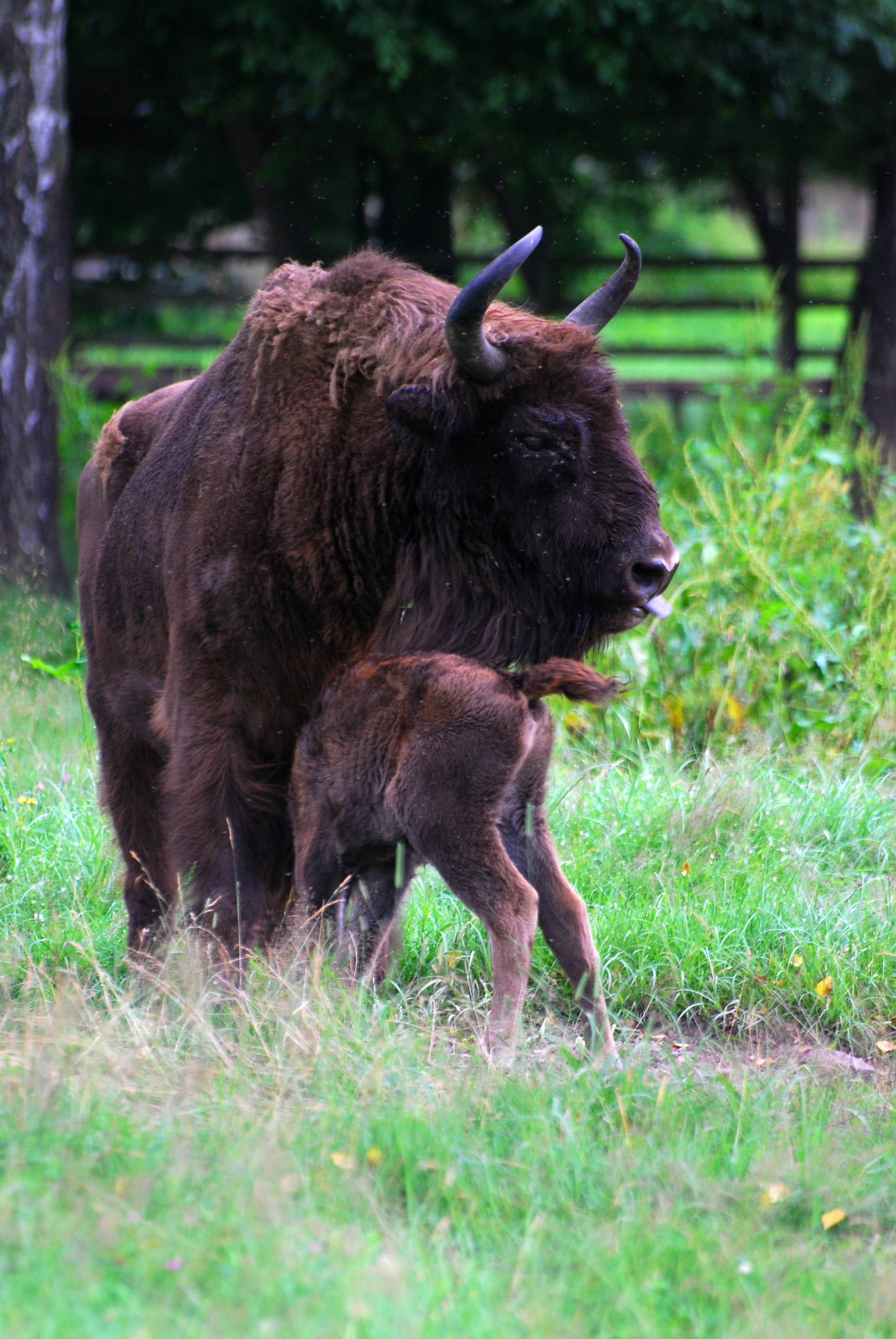 This photo from Podlaskie Voievodeship was taken during Polish Wikiexpedition 2009 set up by Wikimedia Polska Association. The making of this document was supported by Wikimedia Polska. Bison bonasus